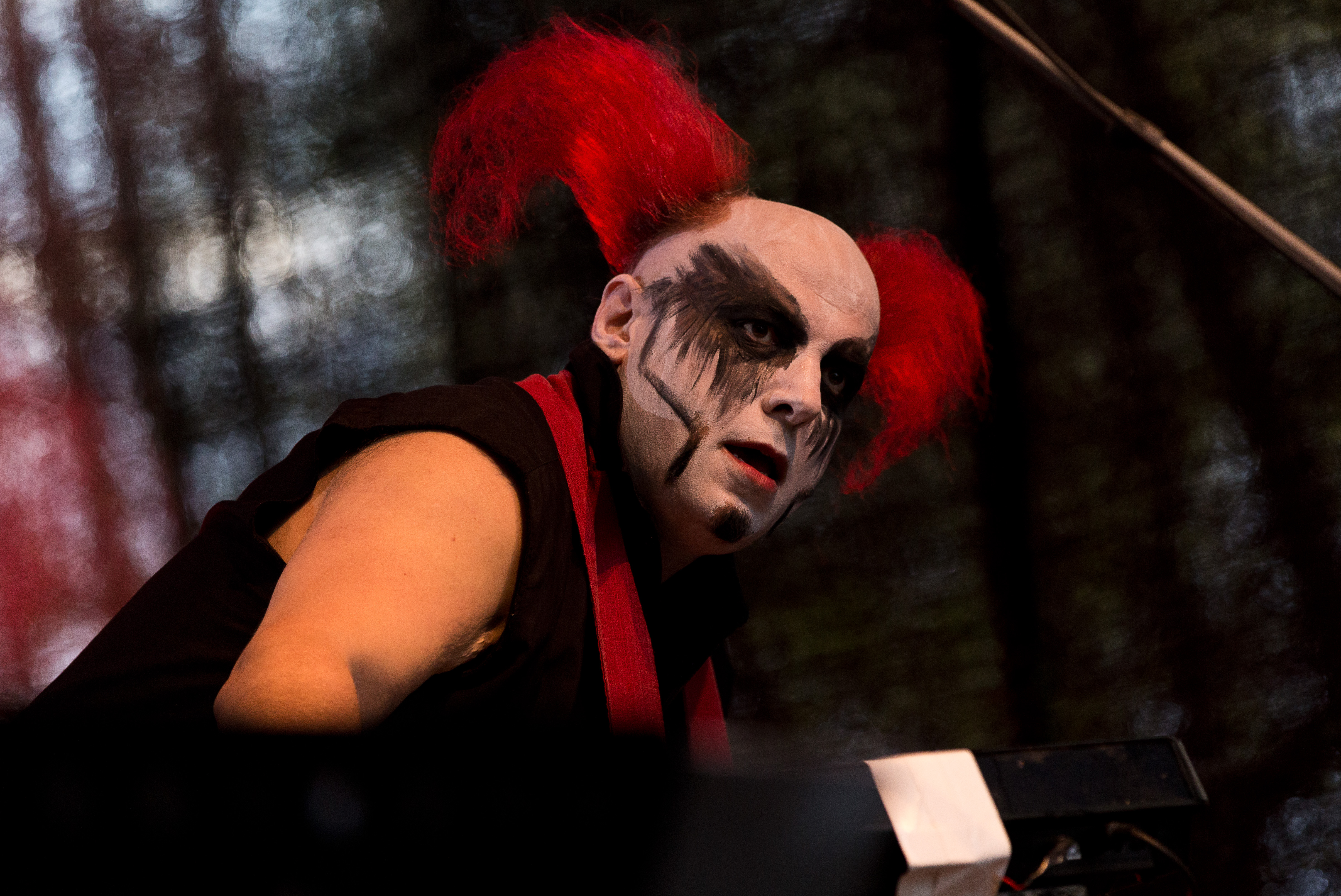 The German electro band Das Ich at the Nocturnal Culture Night 10 2015 in Deutzen/Germany.